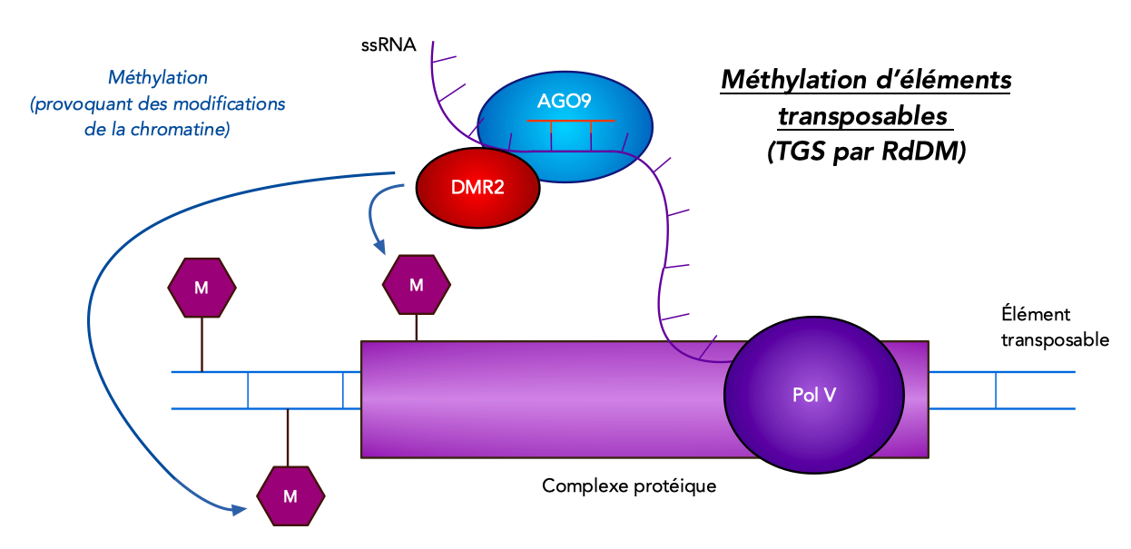 RNA-directed DNA Methylation (RdDM) éteignant des éléments transposables des cellules sub-épidermiques pendant la phase pré-méiotique de la mégasporogenèse chez Arabidopis thaliana